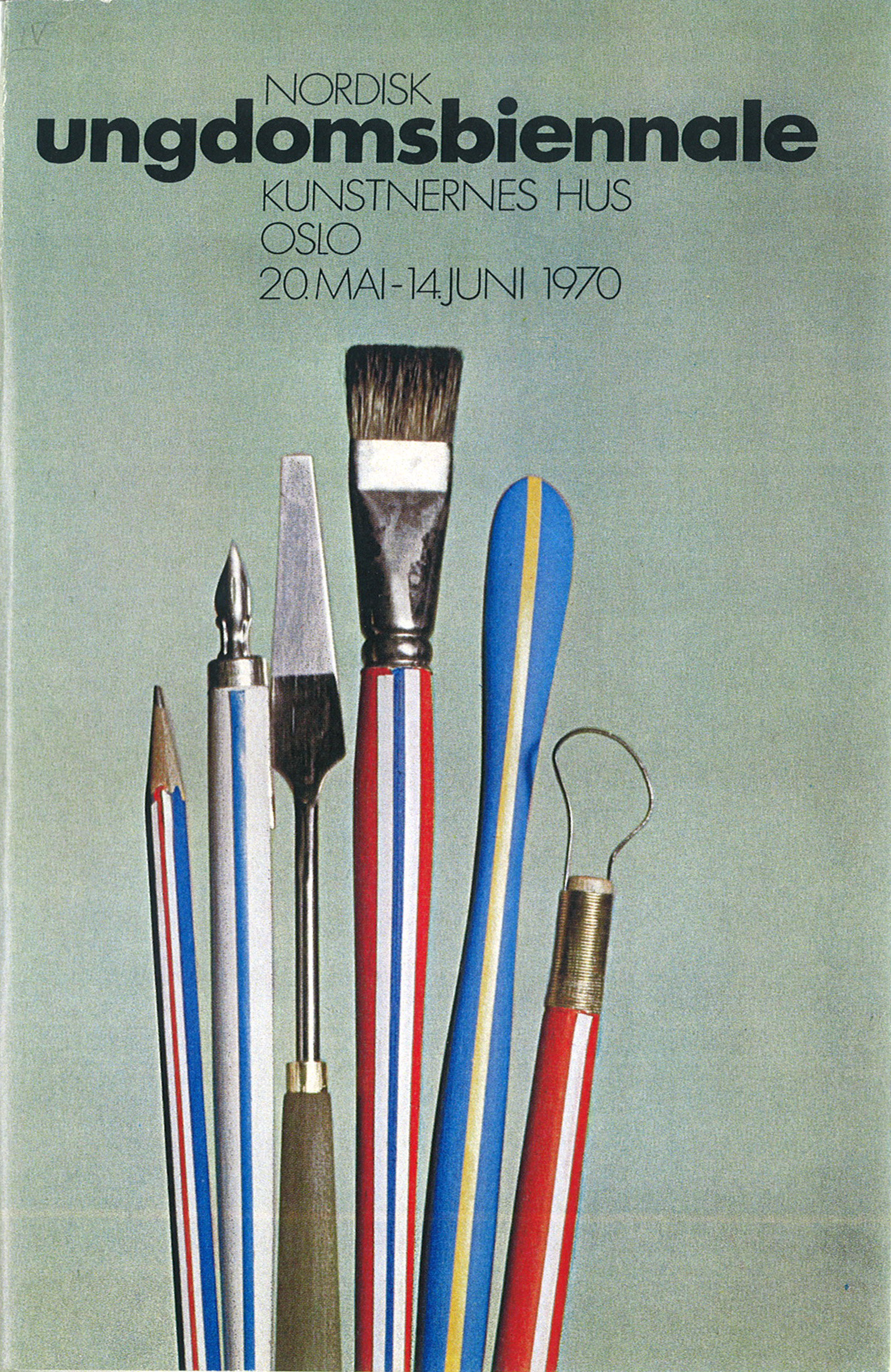 Front cover of the catalogue for the third Nordic biennale for young artists (nordisk ungdomsbiennale) in Oslo. This was also the design of the poster for the biennale